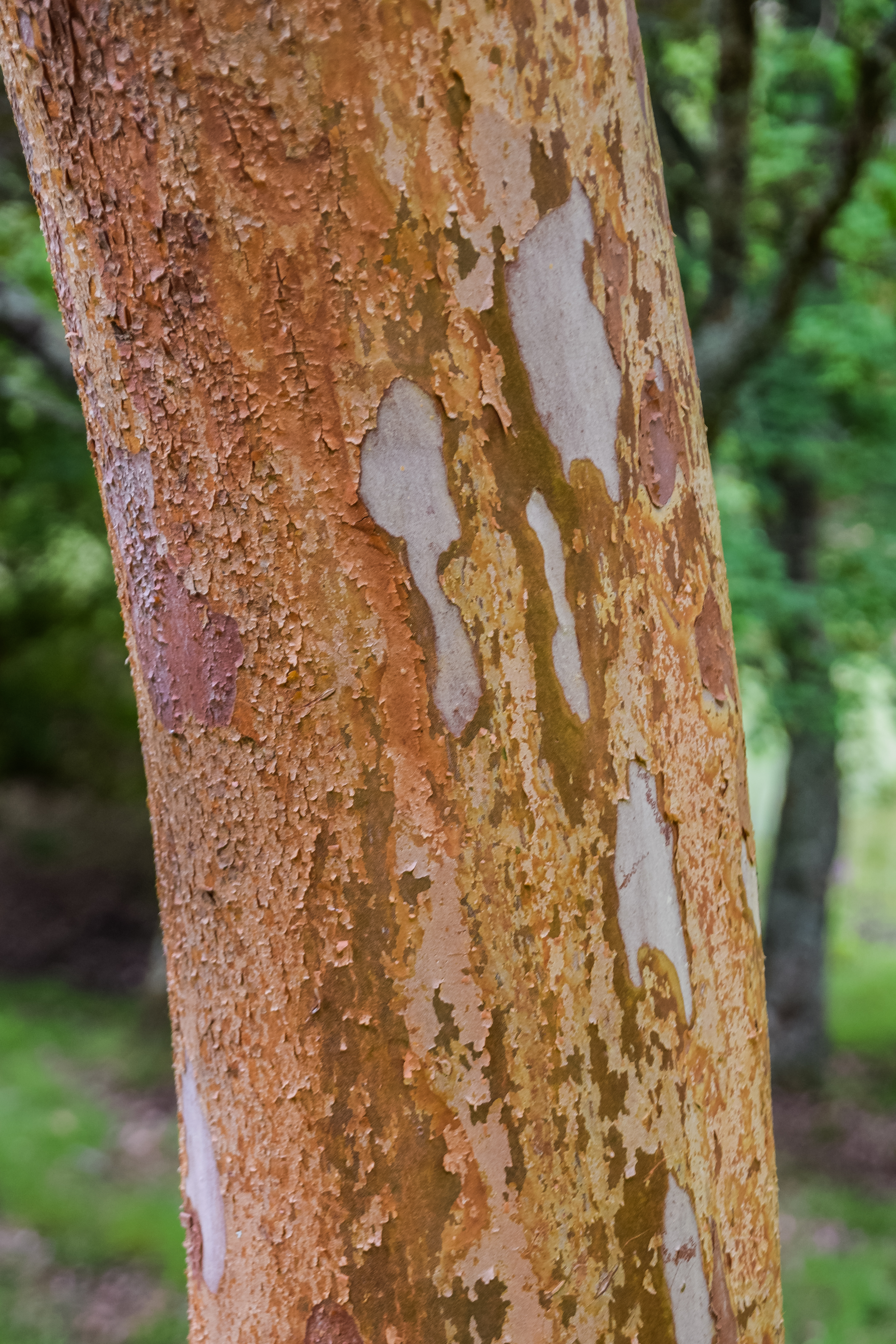 Stewartia sinensis in Hackfalls Arboretum, Gisborne Region, New Zealand